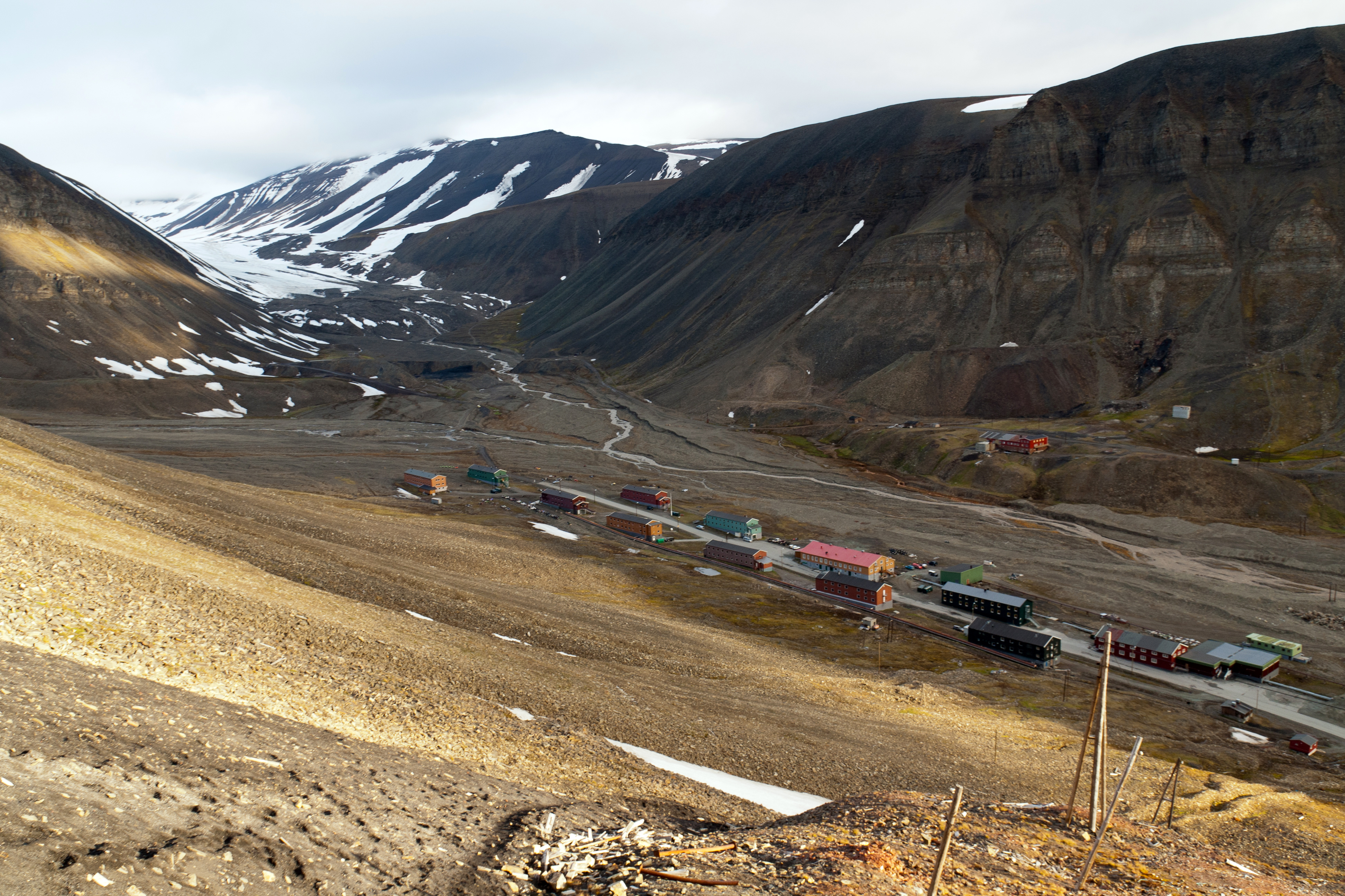 Longyeardalen and Nybyen, Svalbard